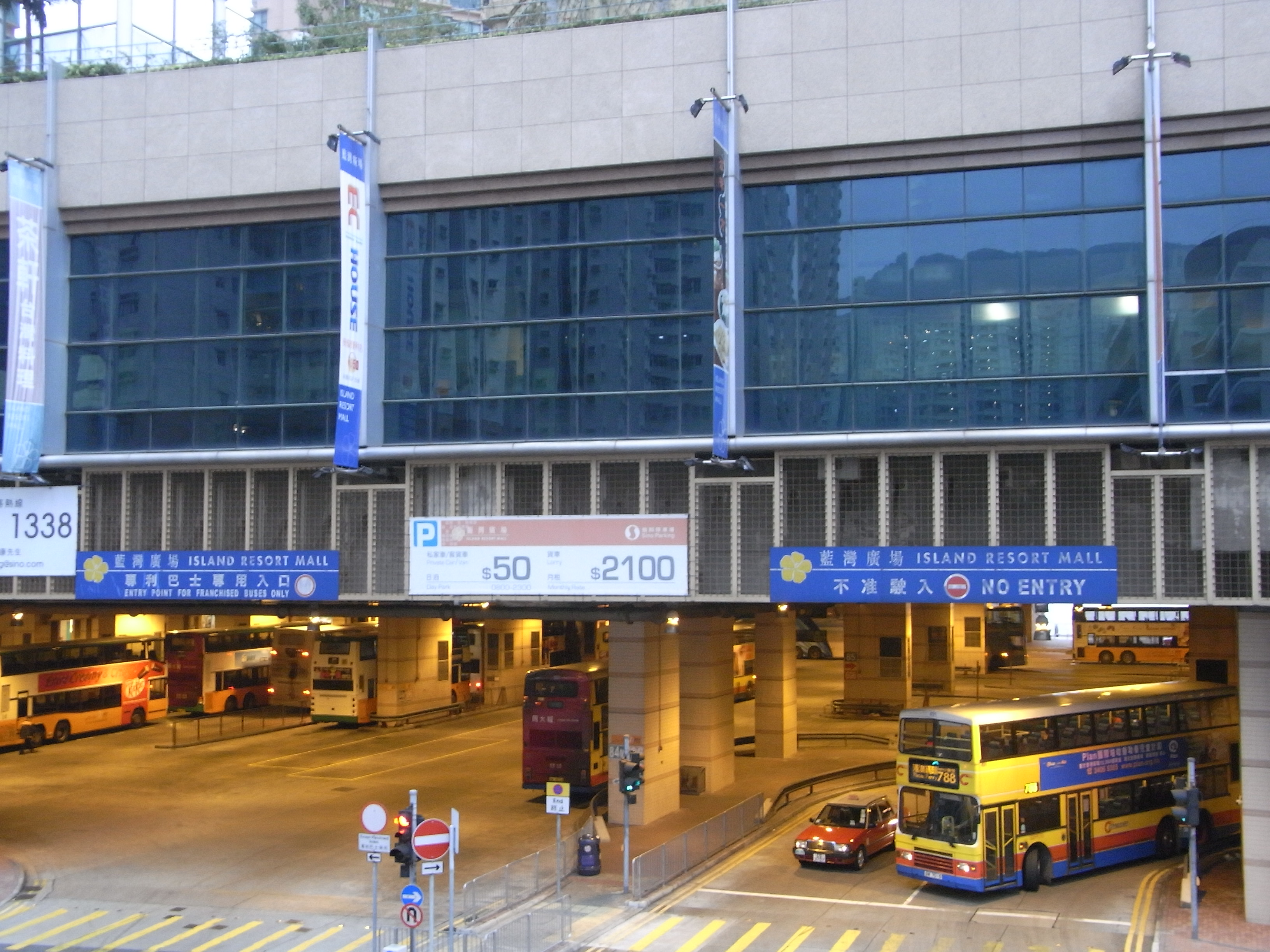 小西灣 巴士總站 藍灣半島 小西灣道 黃昏